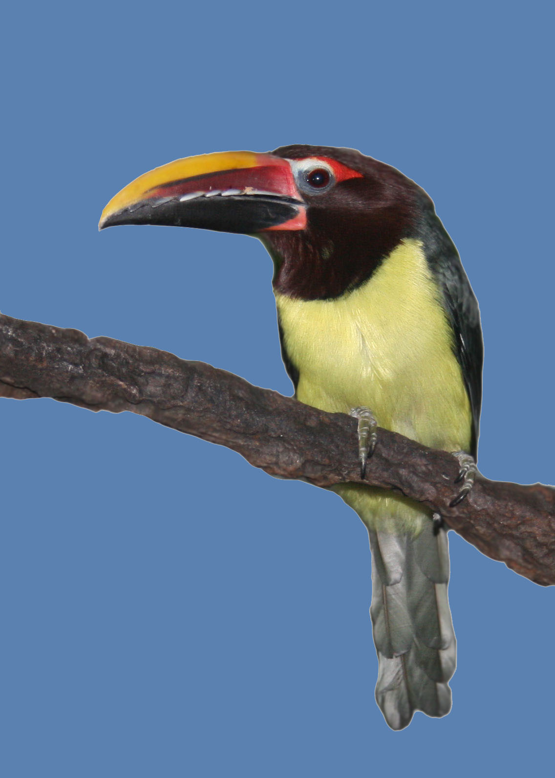 A Toucan at Bronx Zoo.